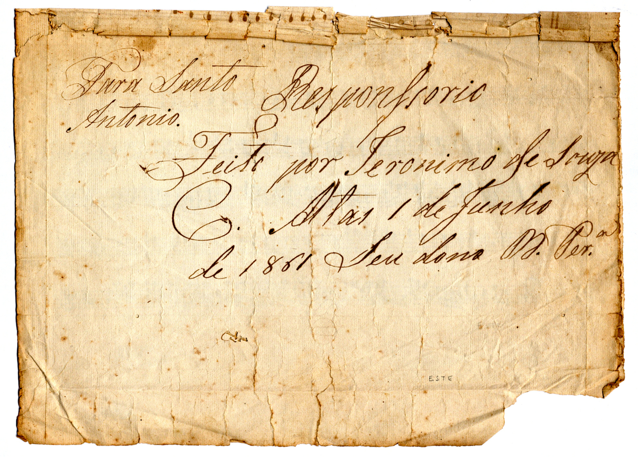 Sheet music cover of Responsory of St. Anthony by Jerônimo de Sousa, copy by Bruno Pereira dos Santos, 1861. (Museu da Música de Mariana, CDO.02.134 CUn)